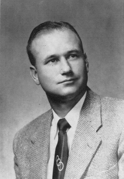 Hardin-Simmons University Basketball coach Bill Scott in 1958